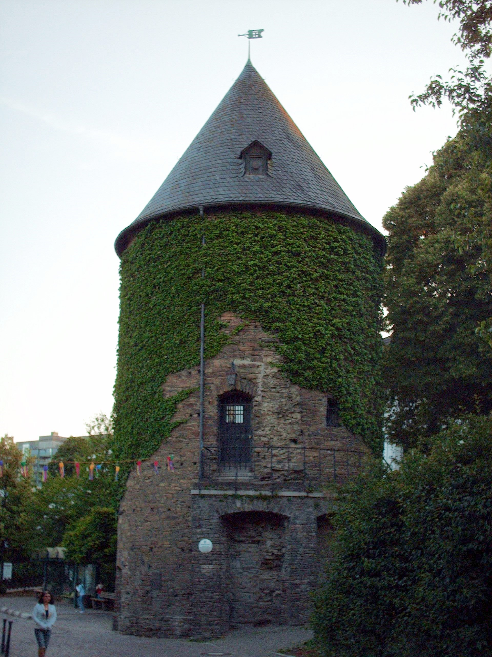 Bieketurm, Attendorn, Germany check usage